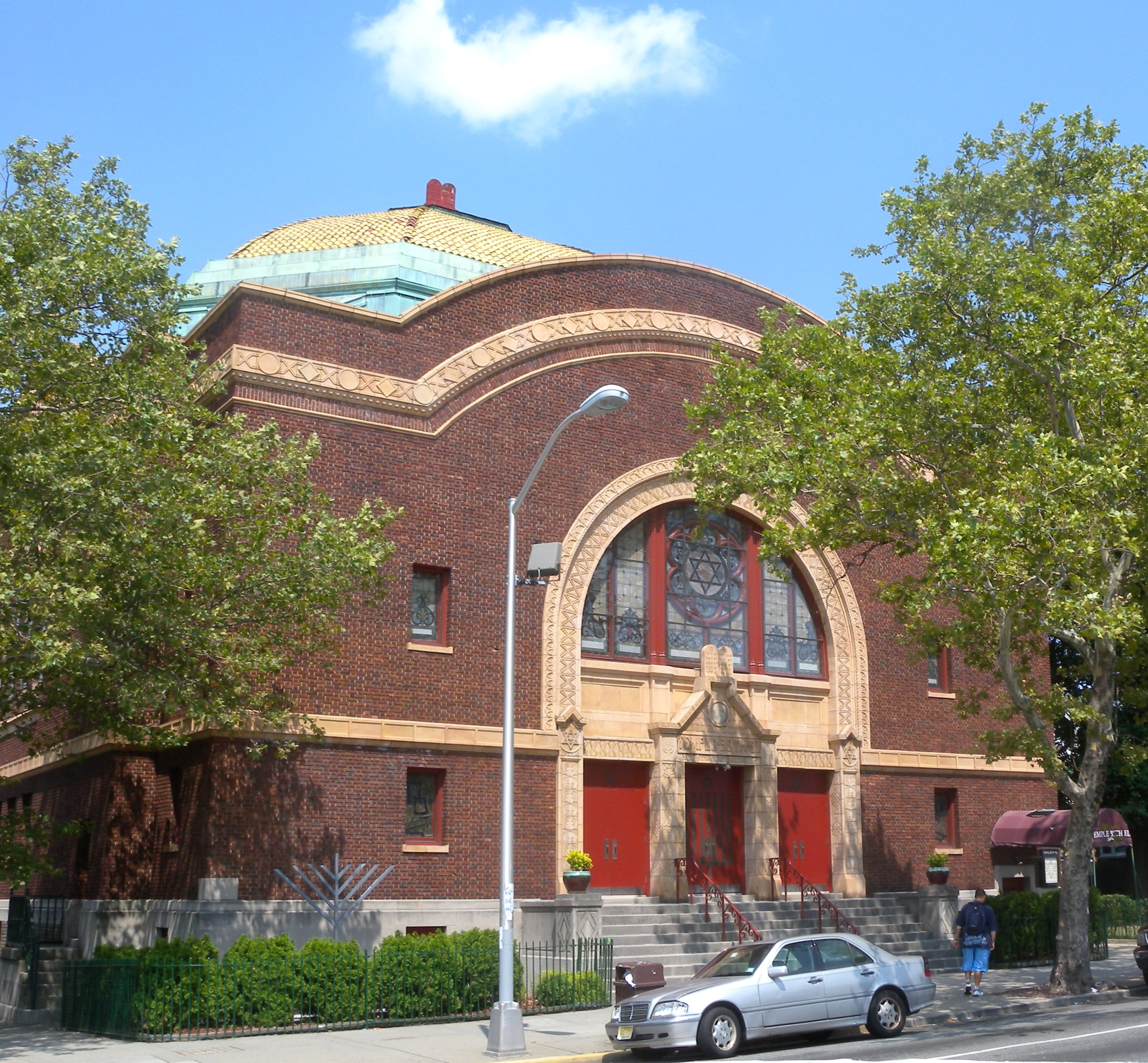 Looking northwest across JFK Boulevard and Harrison Avenue at Temple Bethel on a sunny midday.